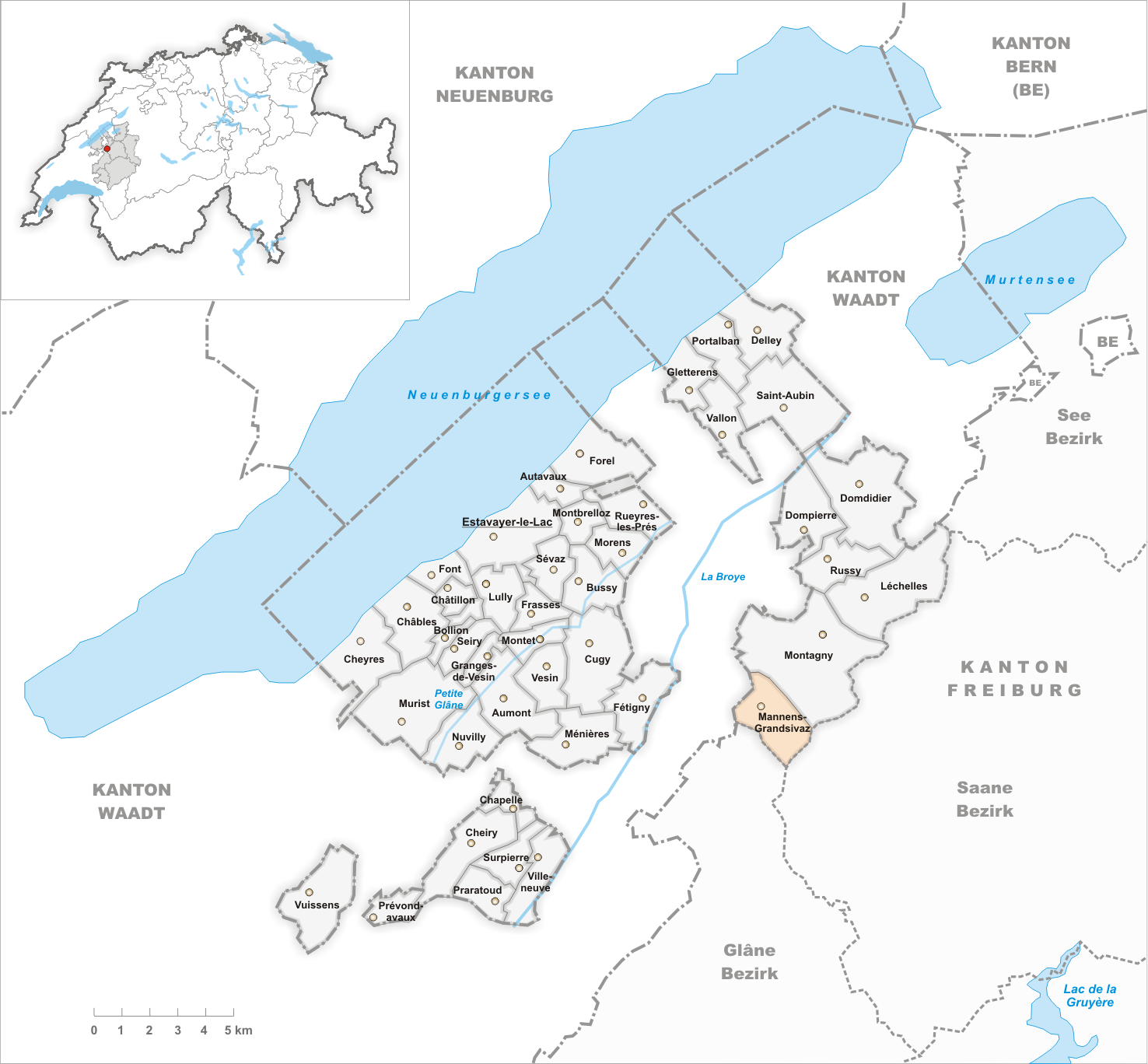 Municipality Mannens-Grandsivaz Artist: Tschubby